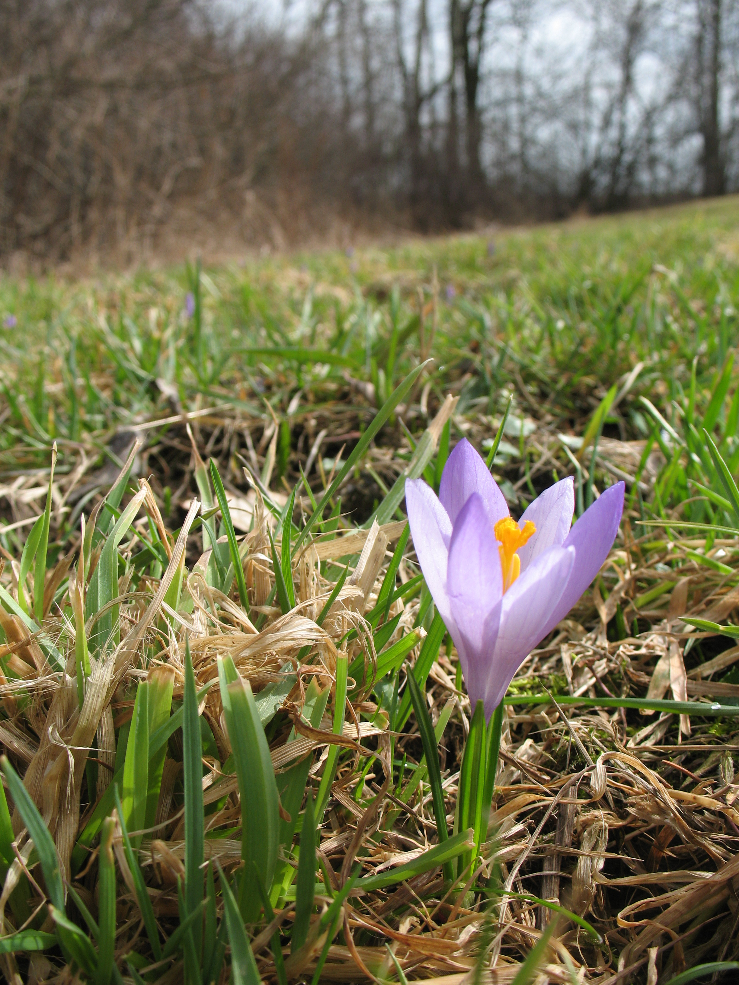 Crocus heuffelianus in nature reserve Hořina, Opava District, Czech Republic